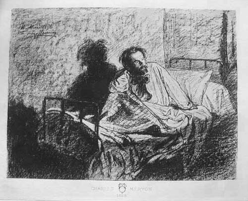 Portrait of French engraver and painter Charles Meryon (1821-1868) by French engraver Léopold Flameng. Rotogravure from an original drawing.